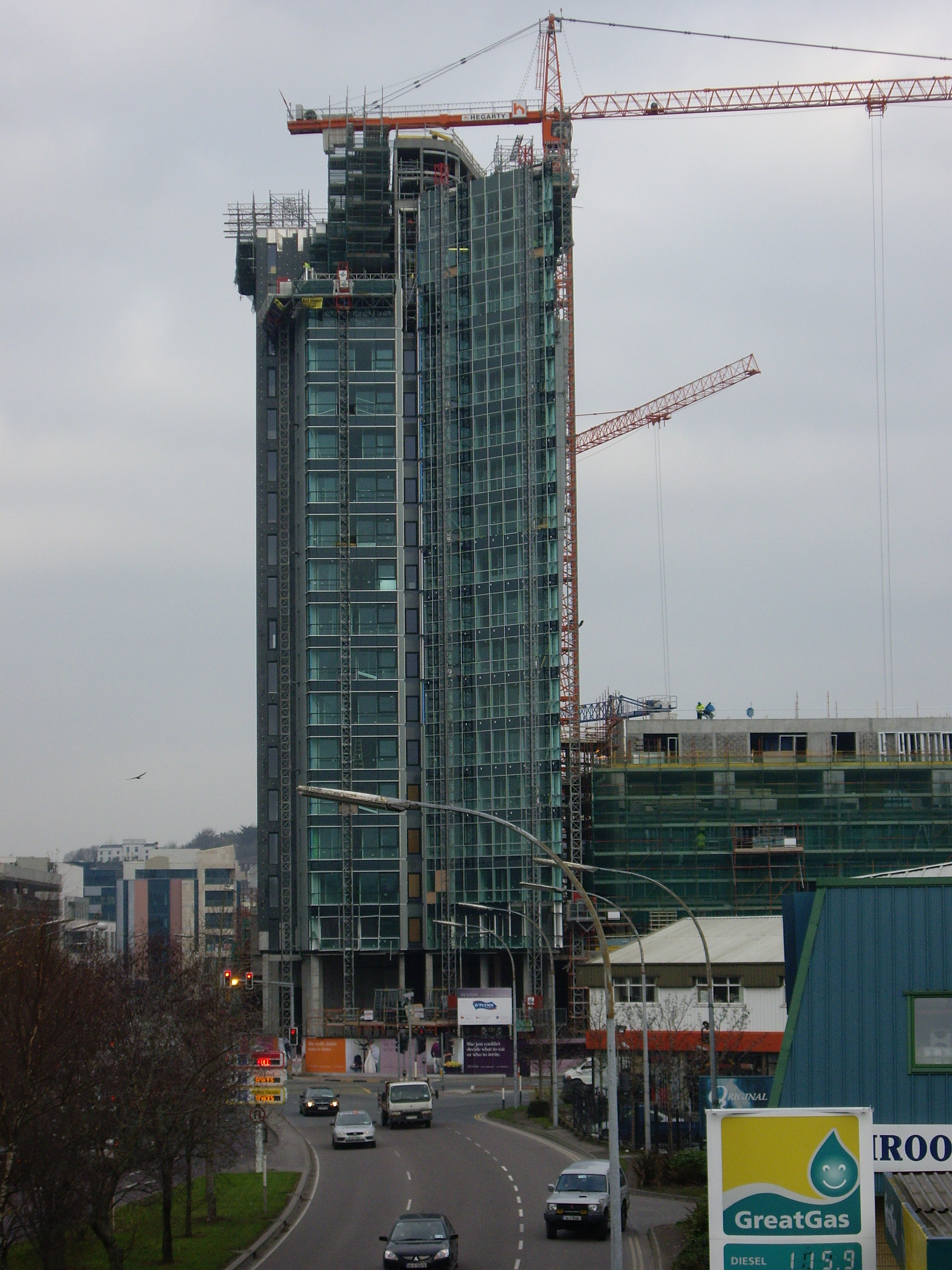 The Elysian under construction in Eglinton Street, Cork, taken from the cable-stayed pedestrian bridge to the south